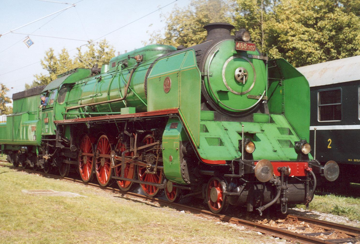 czech steam locomotive 486.007 in Bratislava-Vychod station